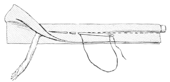 Ill. 296. Cord Piping